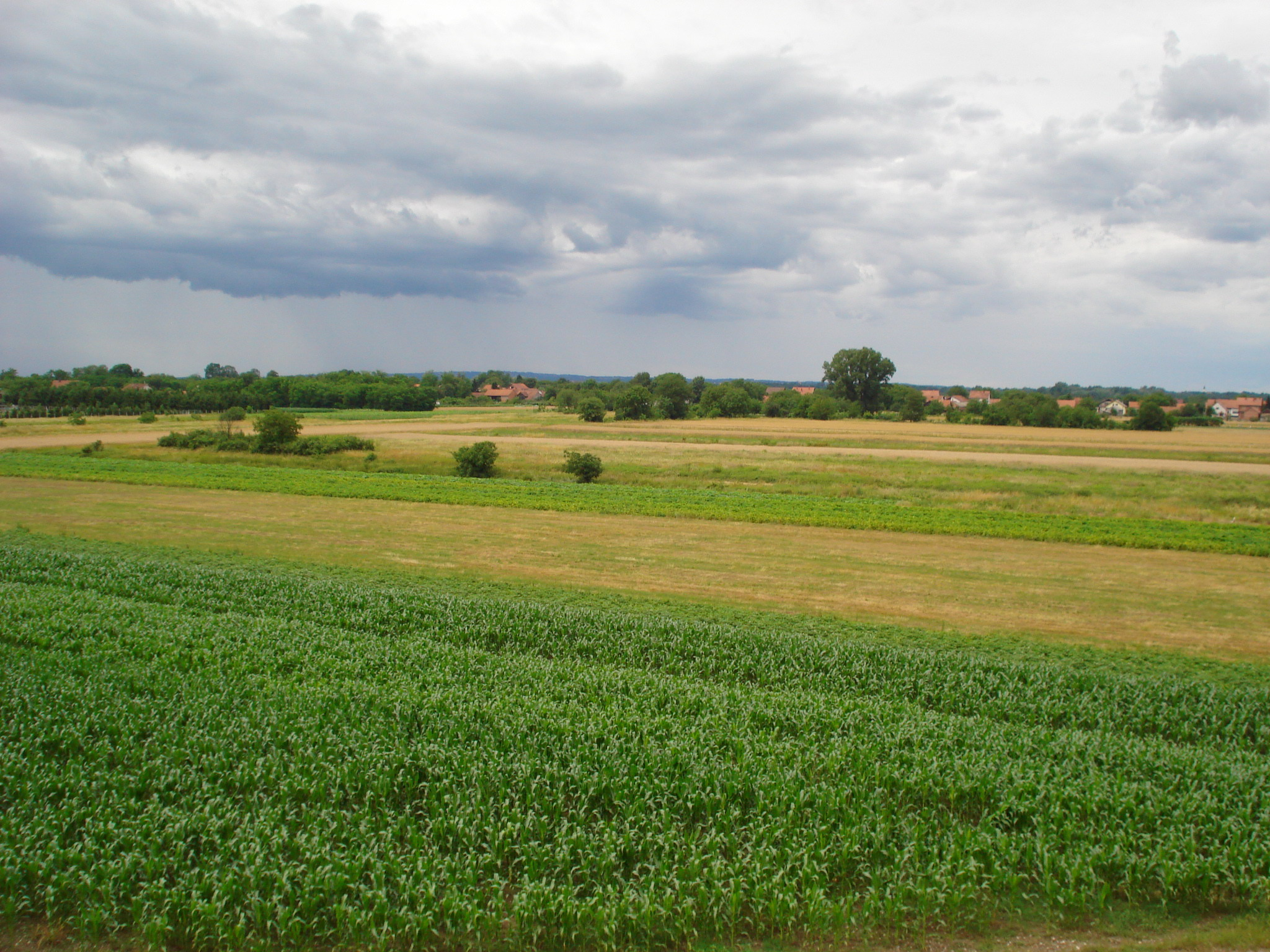 Fields at Mala Subotica village in Međimurje County, CroatiaHrvatski: Polja kod naselja Mala Subotica u Međimurskoj županiji, Hrvatska